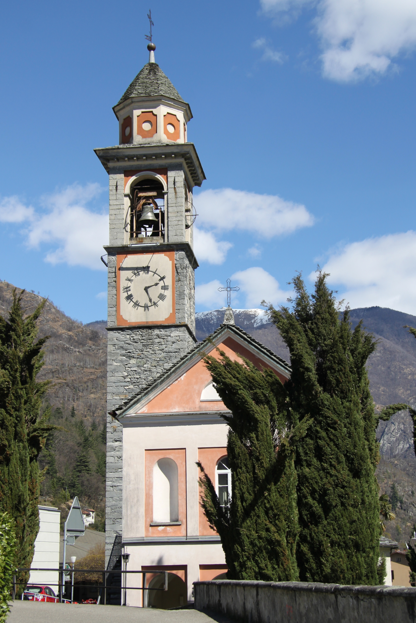 San Michele church in Cavigliano.